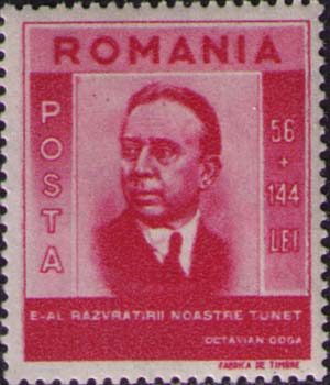 1943 Romanian Post, 56 + 144 lei, red, representing Octavian Goga; Series:Charity for refugees from Transilvania